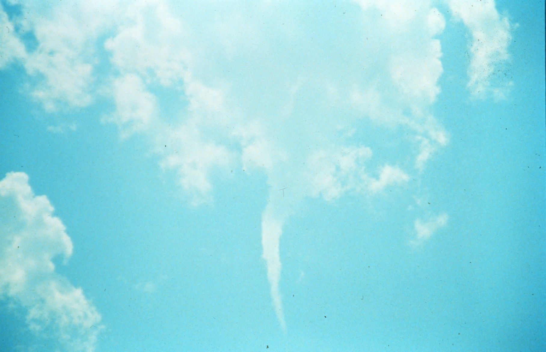 A high based shear funnel cloud, a kind of mid-level funnel cloud, extending from a decaying cumulus cloud taken over Northern Texas